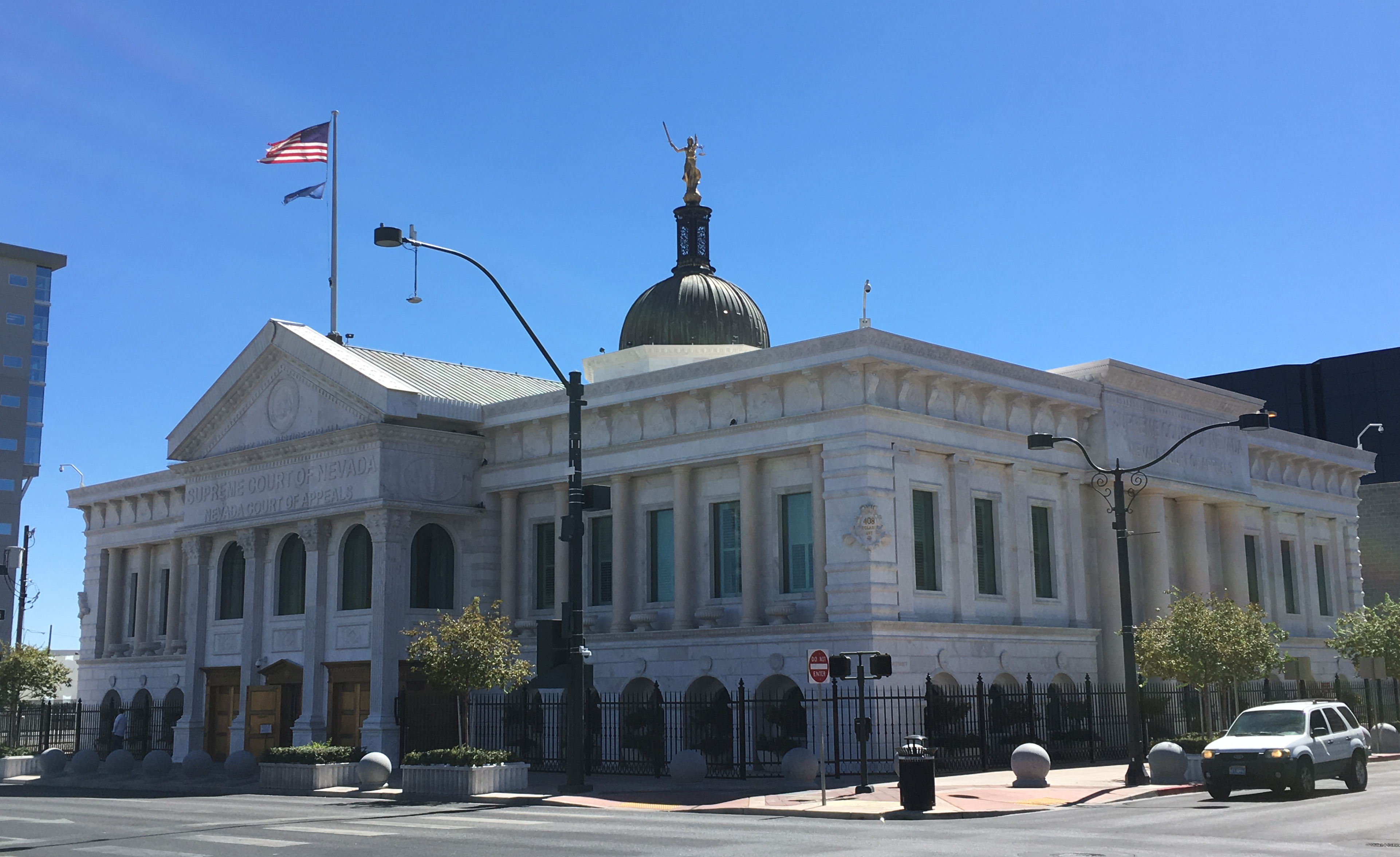 The courthouse in Las Vegas shared by the Nevada Supreme Court and Nevada Court of Appeals